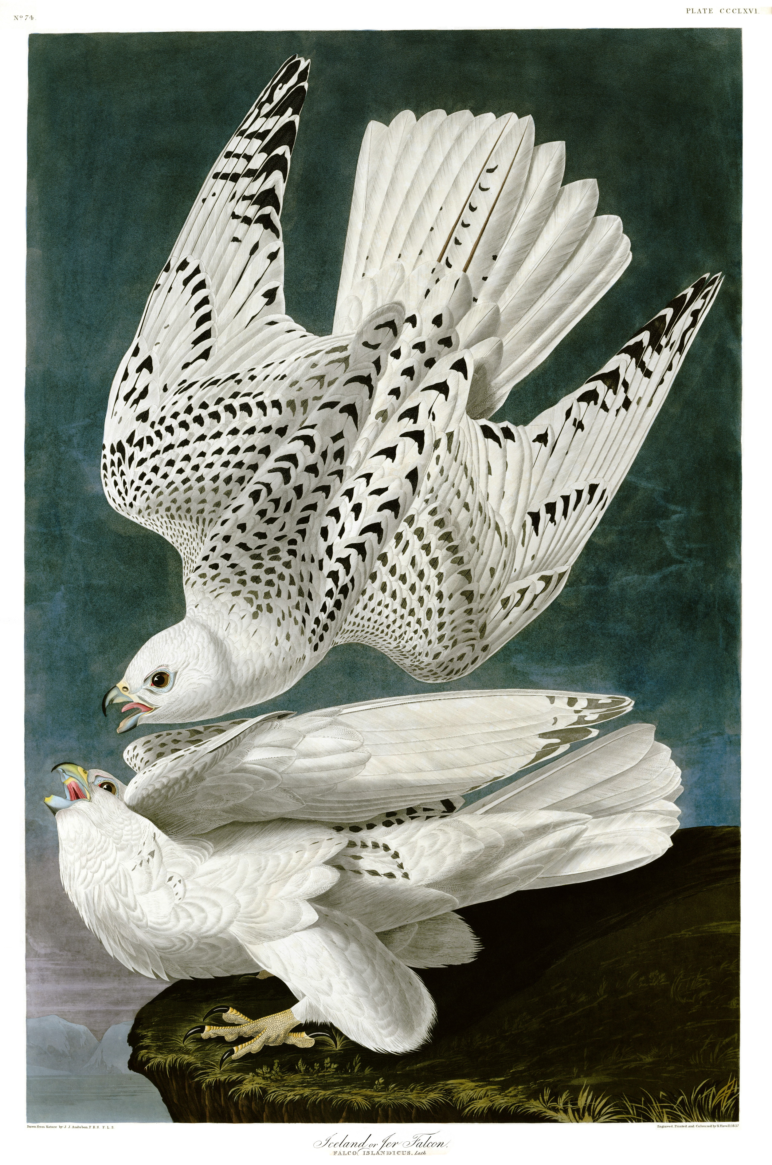 Gyrfalcon , Falco rusticolus, hand-colored engraving